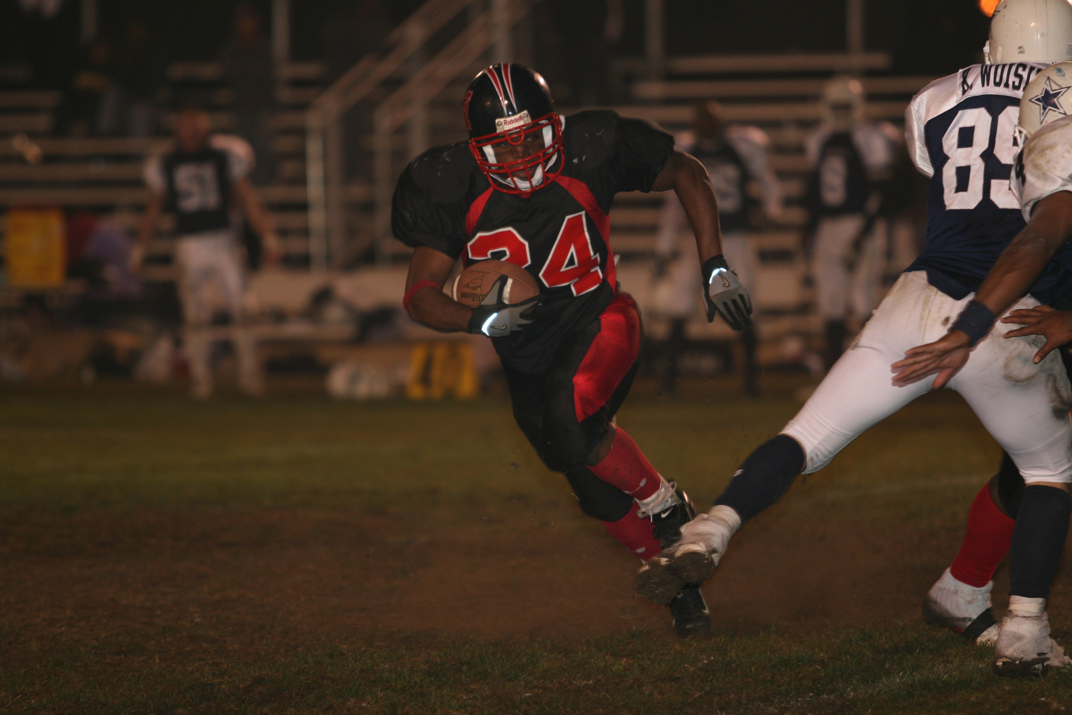 Lance Cpl. Cordero Davis, a Miramar Falcons running back, turns up the field on his way to the end zone during the Camp Pendleton Tackle Football League championship game against the “Marshals” from the School of Infantry at the main side football field here.